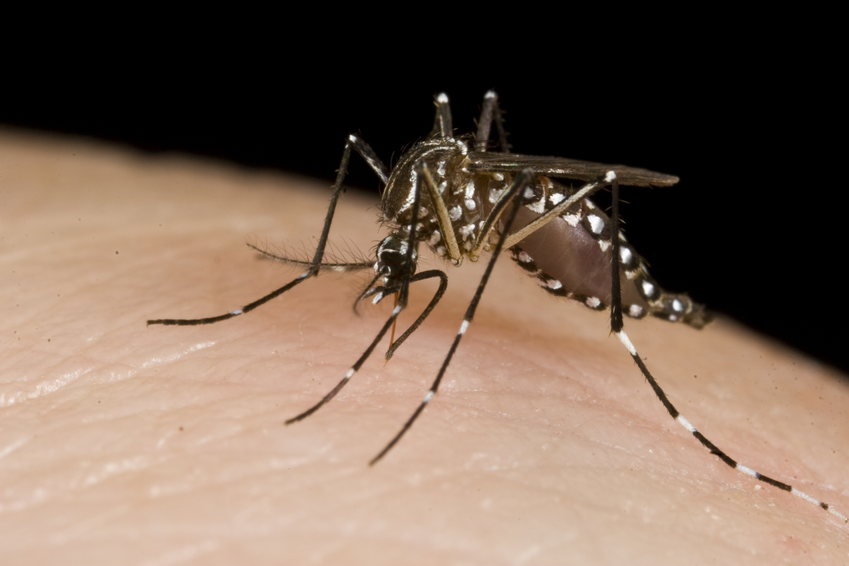 The Mesocyclops is a predator that eats the dengue mosquito larvae. Photo: Simon Kutcher, AFAP. with the URL of an image or images to obtain a high resolution original.